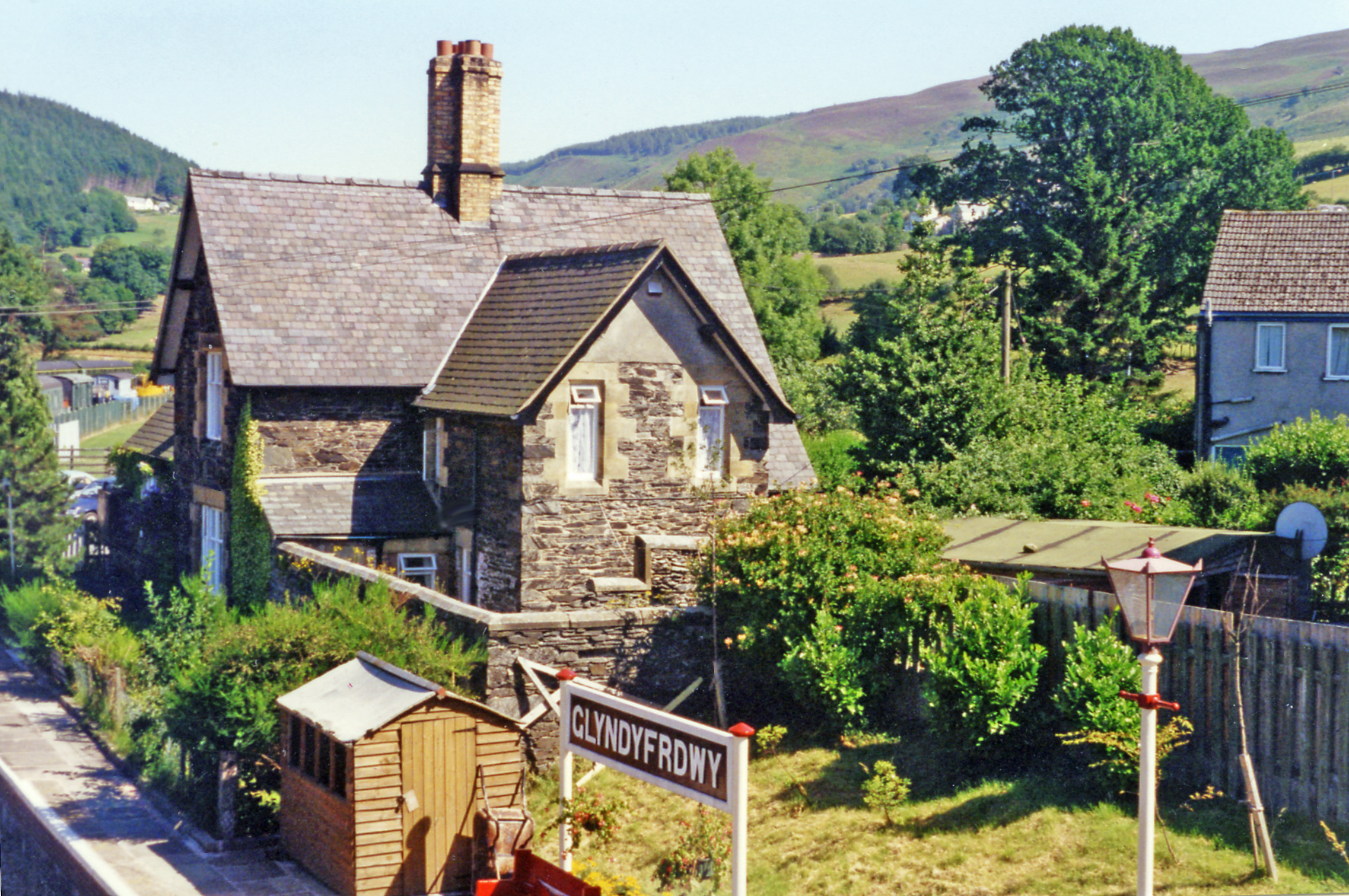 Glyndyfrdwy station, 1995. View eastward, towards Llangollen down the Dee Valley